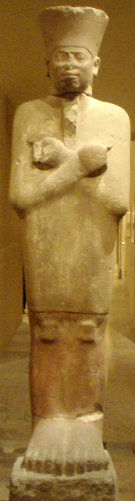 A painted sandstone statue of Nebhepetre Mentuhotep (Mentuhotep II) wearing the red crown of Upper Egypt. From the 11th dynasty, circa 2060-2010 B.C. Head and body are derived from different statues. On display at the Metropolitan Museum of Art.